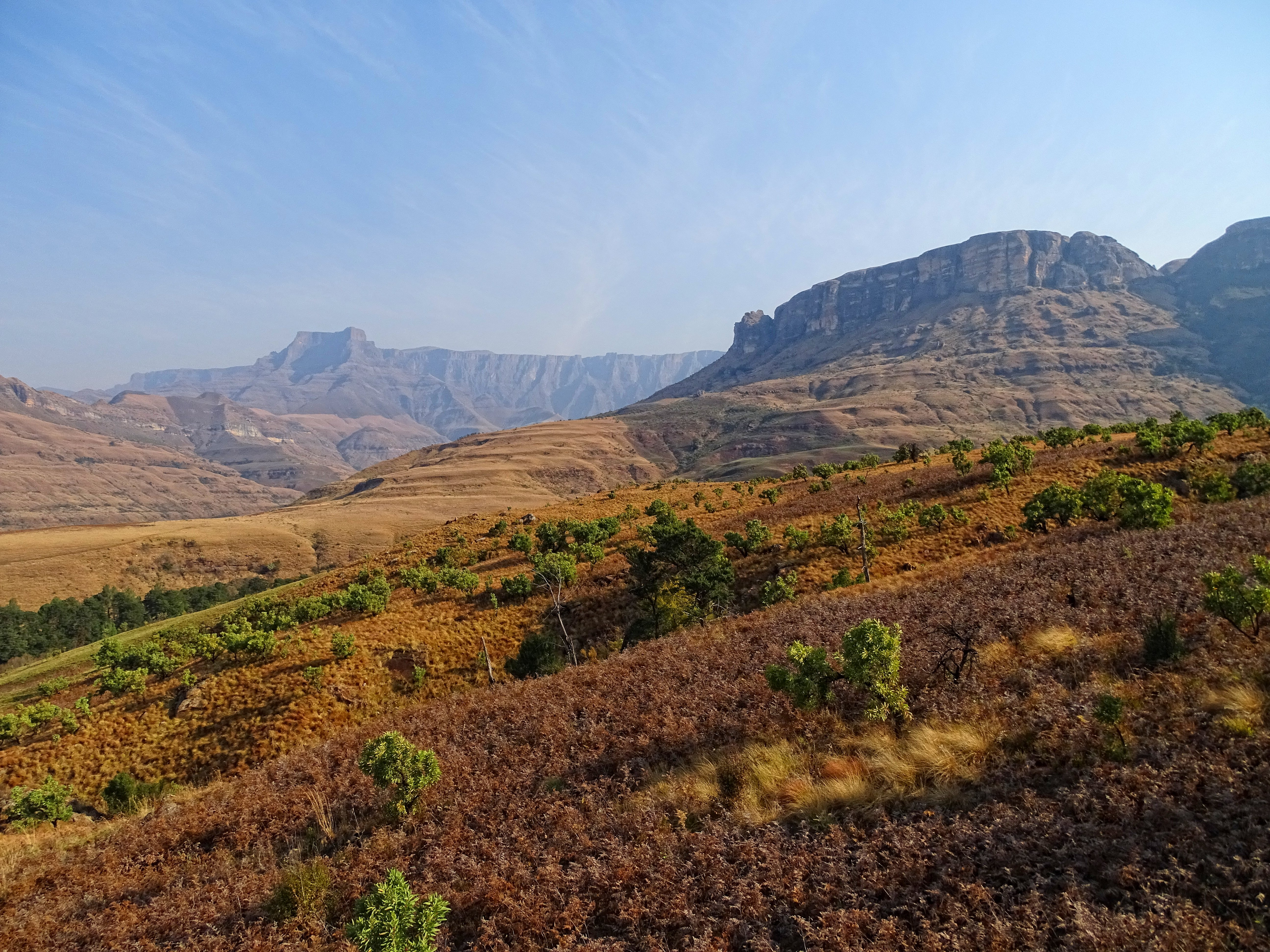 A view from Royal Natal National Park, South Africa, from near Thendele Upper Camp, north-east towards the Amphitheatre